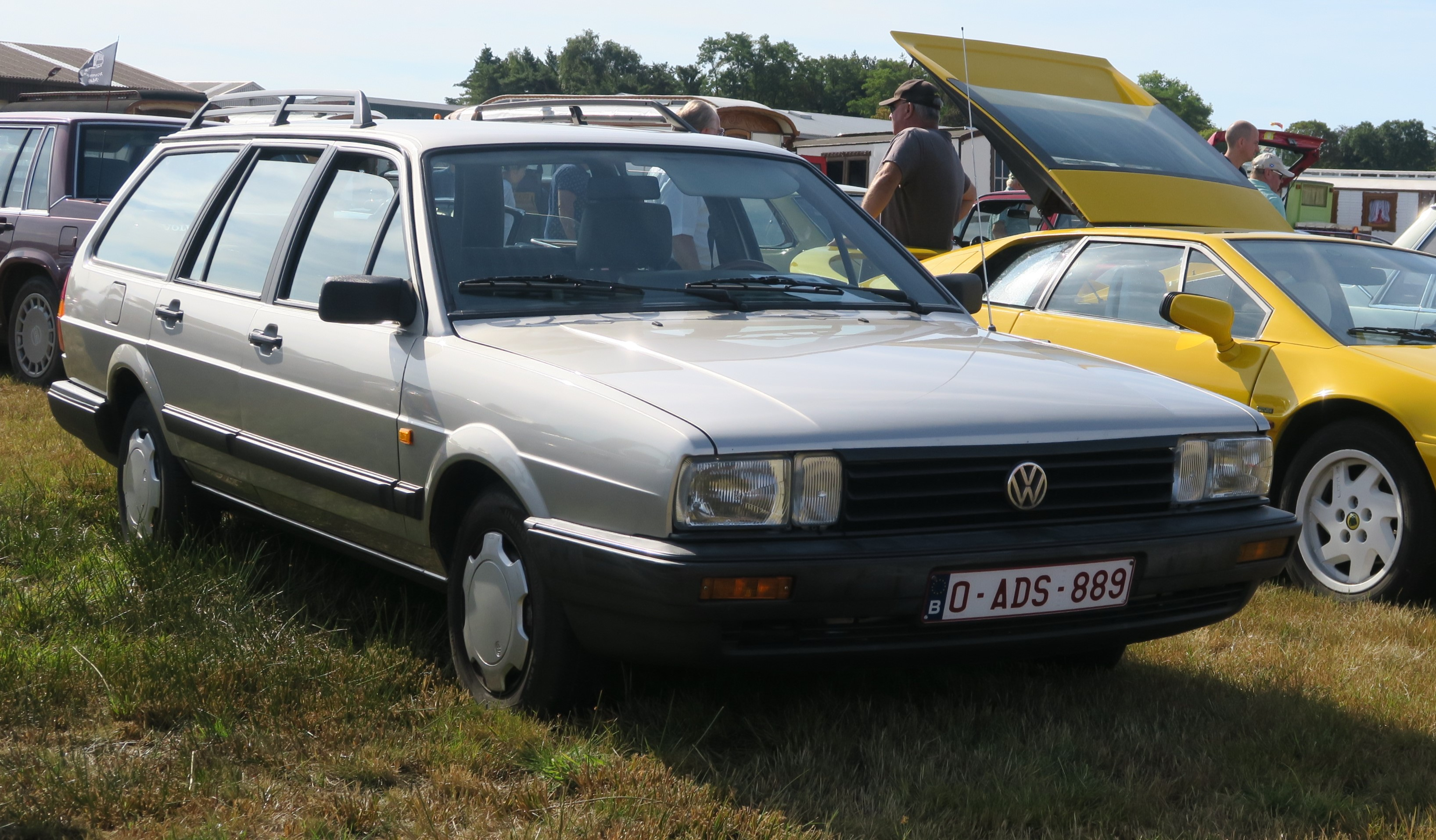 Volkswagen Passat Variant B2